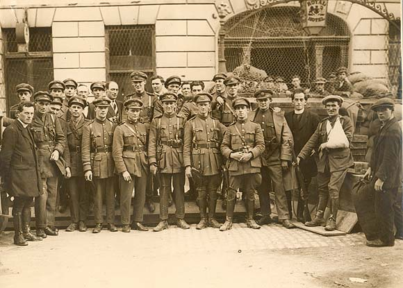 Photograph taken ca. 1922 Format: glass negative Part of: National Library of Ireland Hogan Collection Reference numbe: HOG133